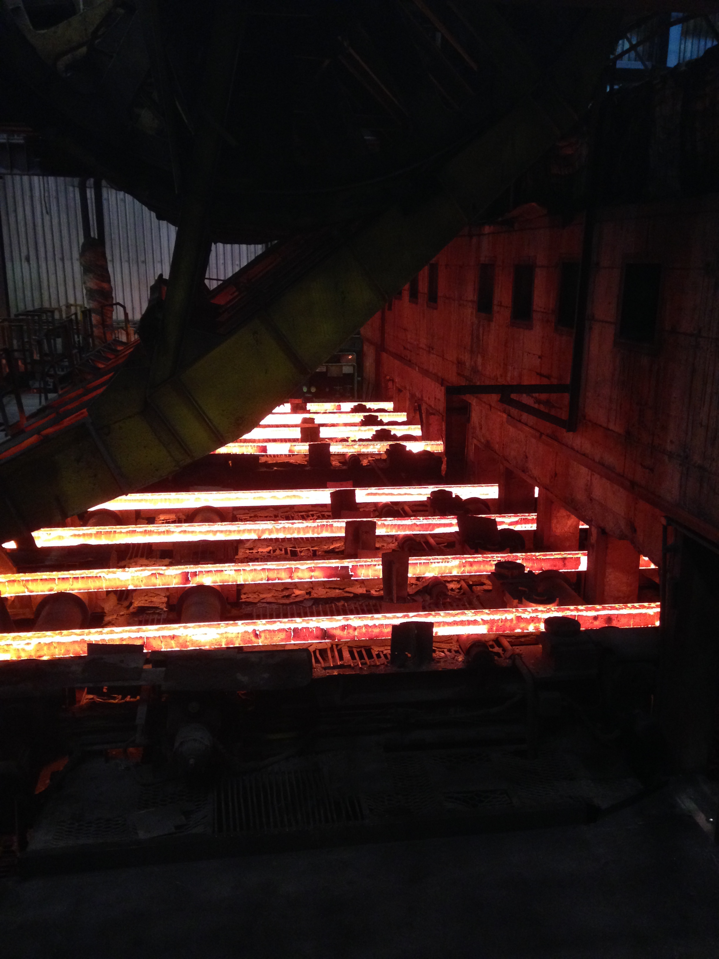 Continuous casting machine